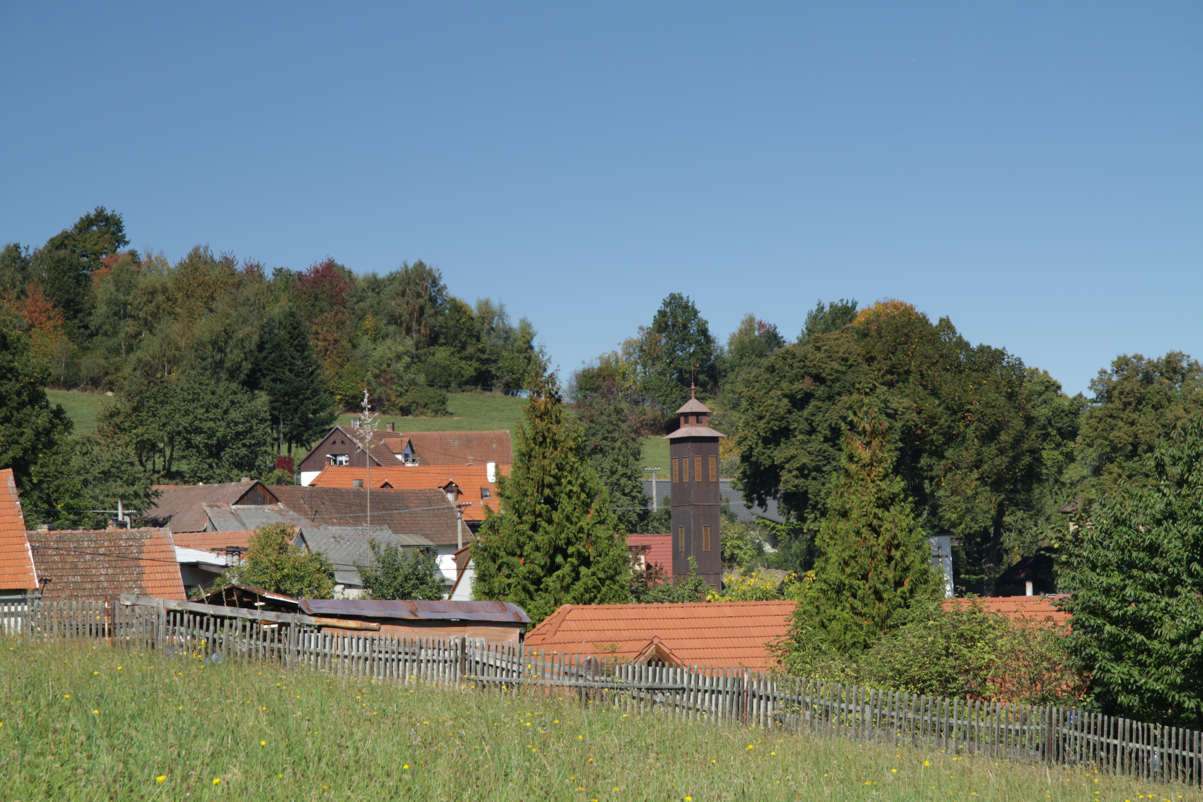 Zábrdí village in Prachatice District, Czech Republic - Google Maps - Google Earth